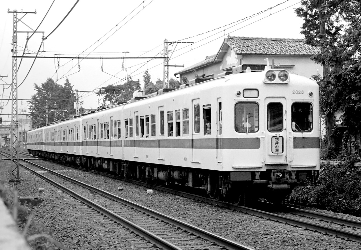 Odakyu Electric Railway 2320 type EMU running between Soshigayaokura and Seijogakuenmae in 1979.